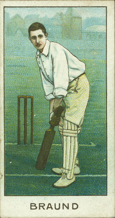 Will's Cigarette Card of Len Braund, part of the 1903 Cricketers series.